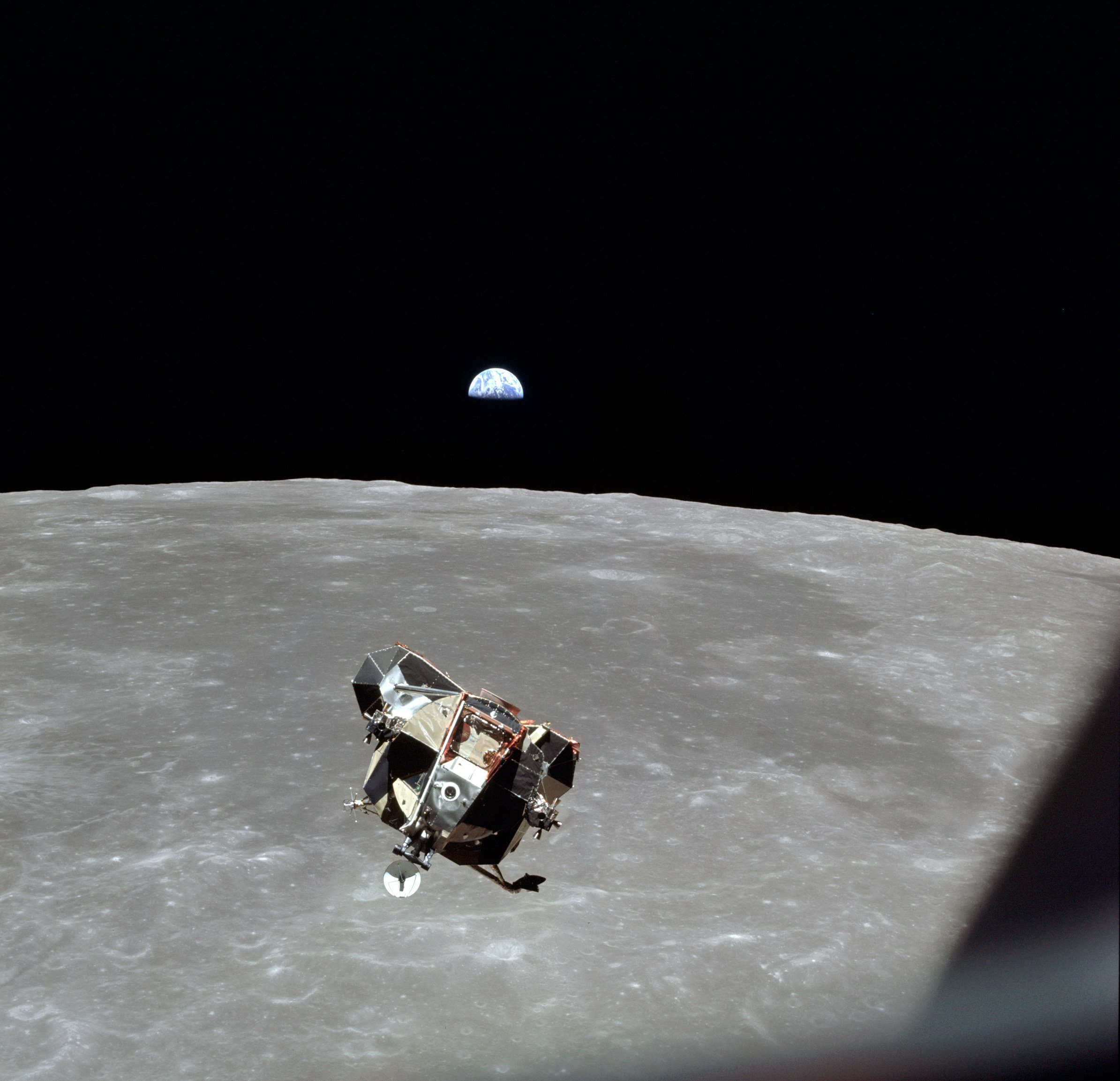 The Apollo 11 lunar module, the Moon, and the Earth. This is the correct orientation of this image. Numerous other versions found on the internet have been incorrectly mirrored. Appearing center and upside down is the forward hatch. When upright, the VHF antenna should be above right of center hatch, as depicted in this photo. Therefore, this is correct. A view of the Apollo 11 lunar module Eagle as it returned from the surface of the moon to dock with the command module Columbia. A smooth mare area is visible on the Moon below and a half-illuminated Earth hangs over the horizon. The lunar module ascent stage was about 4 meters across. Command module pilot Michael Collins took this picture just before docking at 21:34:00 UT (5:34 p.m. EDT) 21 July 1969. (Apollo 11, AS11-44-6642)